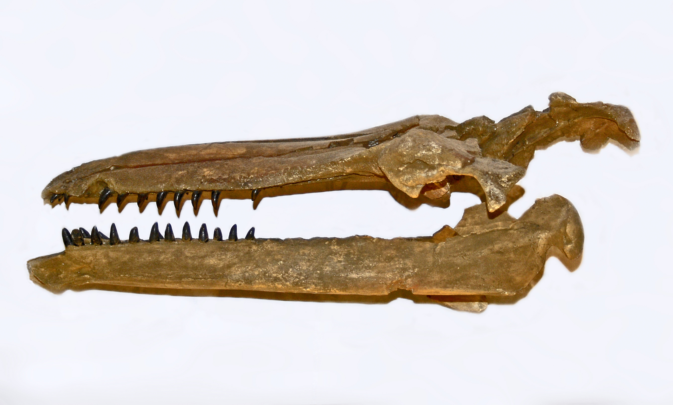 Skull cast of Hemisyntrachelus pisanus, on display at the Museo di Storia Naturale e del Territorio, Calci (Province Pisa), Italy